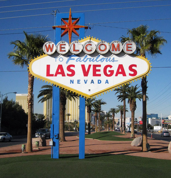 The Welcome to Fabulous Las Vegas Sign